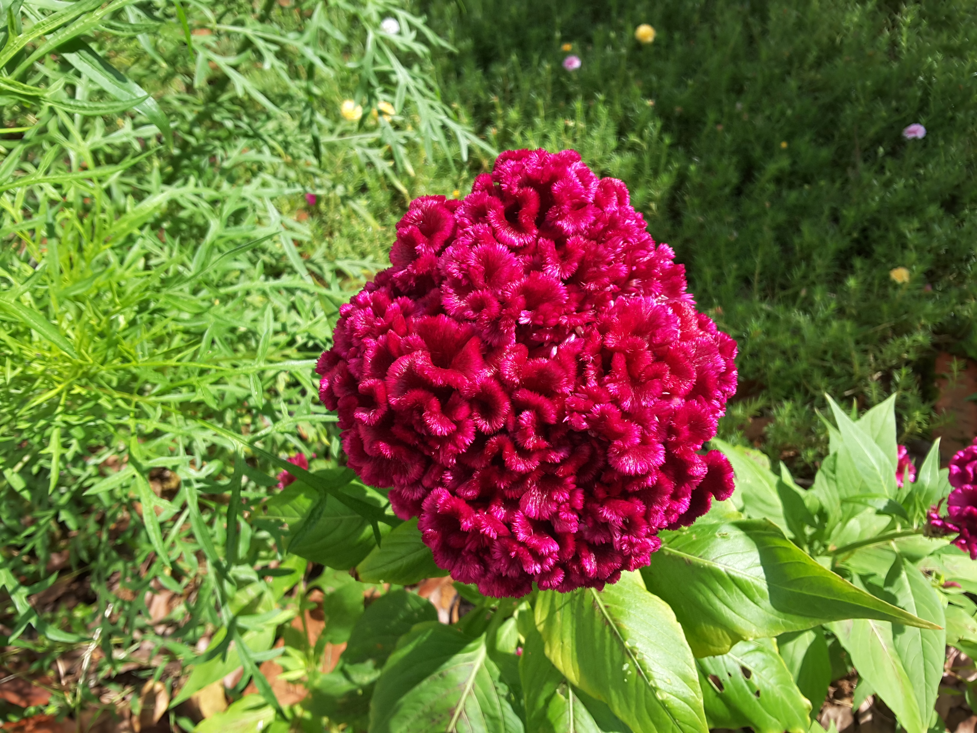 Celosia Cristata Magenta